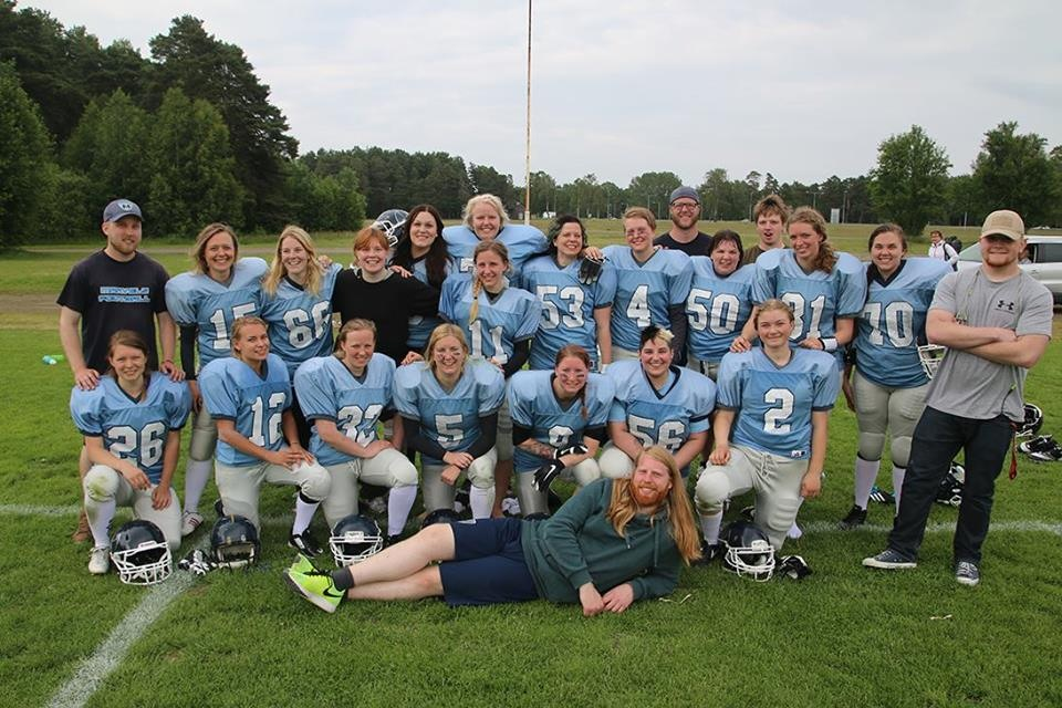 Göteborg Marvels first season